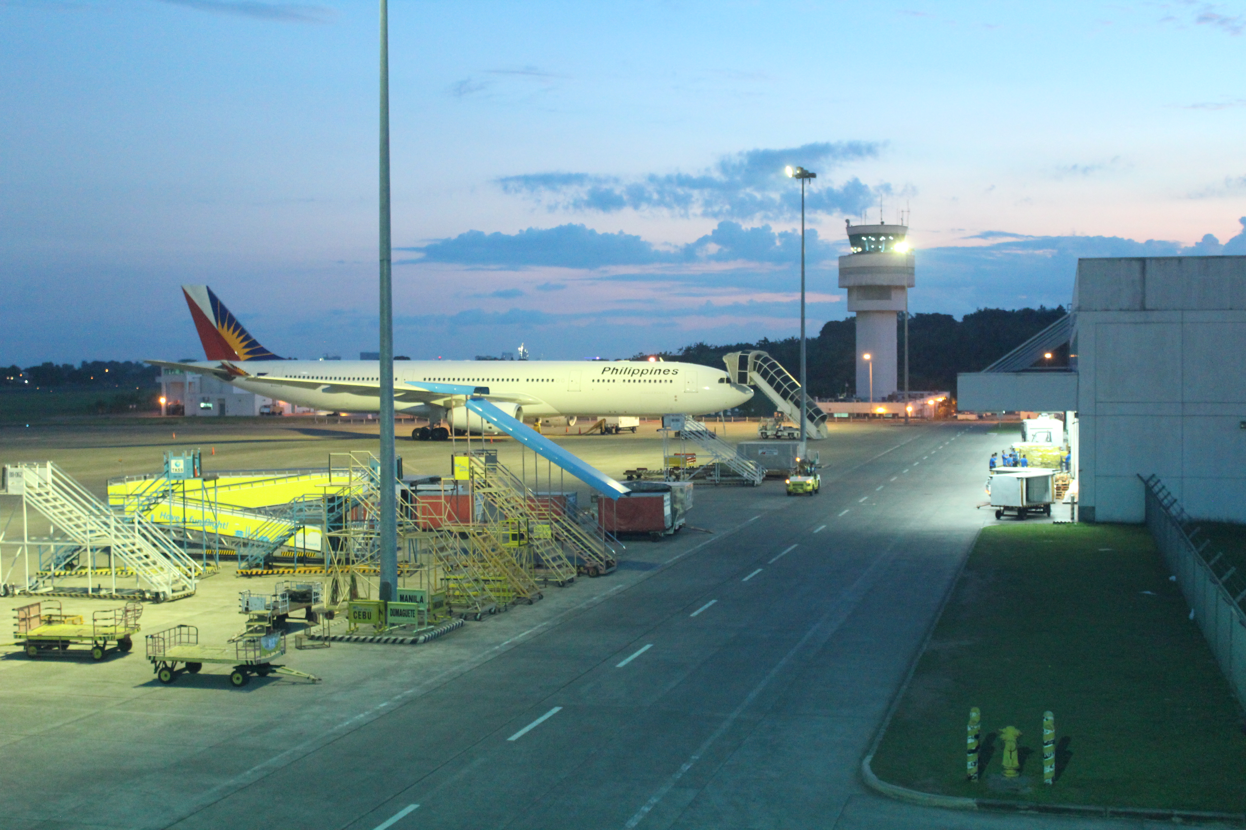 Philippine Airlines Airbus A330-300, parked next to the airport tower at Francisco Bangoy International Airport, Davao